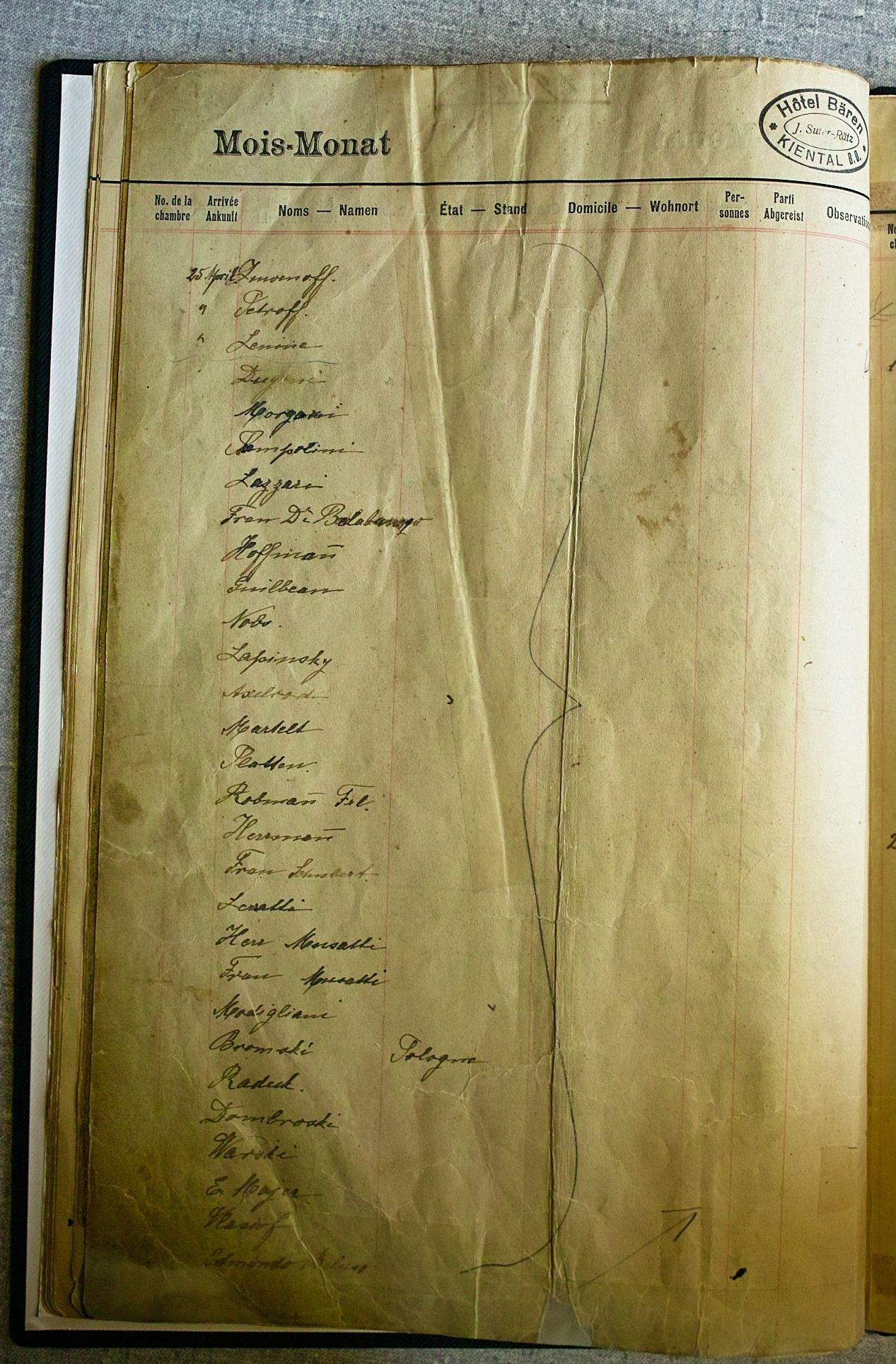 List of participants at the Kiental conference in Kiental, 24-30 april 1916. Scan of the guestbook of the hotel "Bären". Page 2/2.